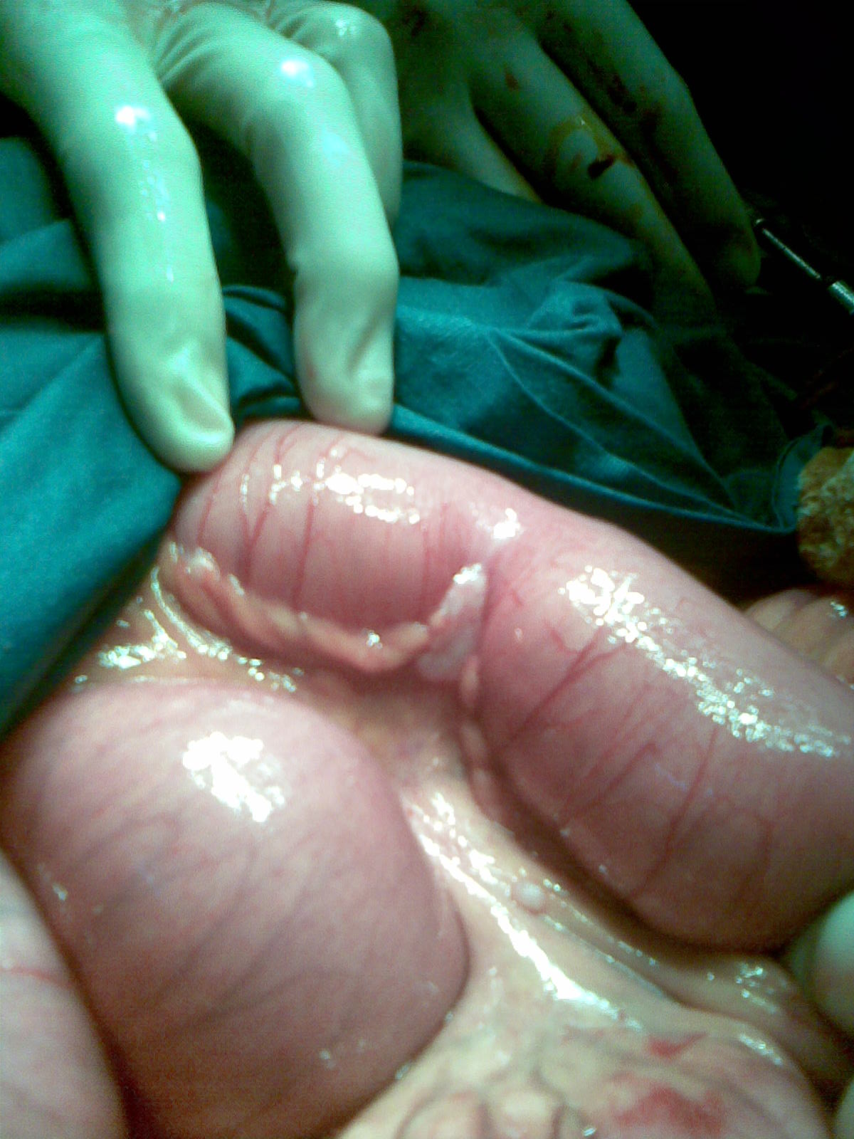 I am a doctor, working in operation room for more than fifteen years. I also have pictures of metastasis of this tumor. Diagnosis was confirmed by histopathology. This work is not copyright,I hereby release it into the public domain. This applies worldwide.